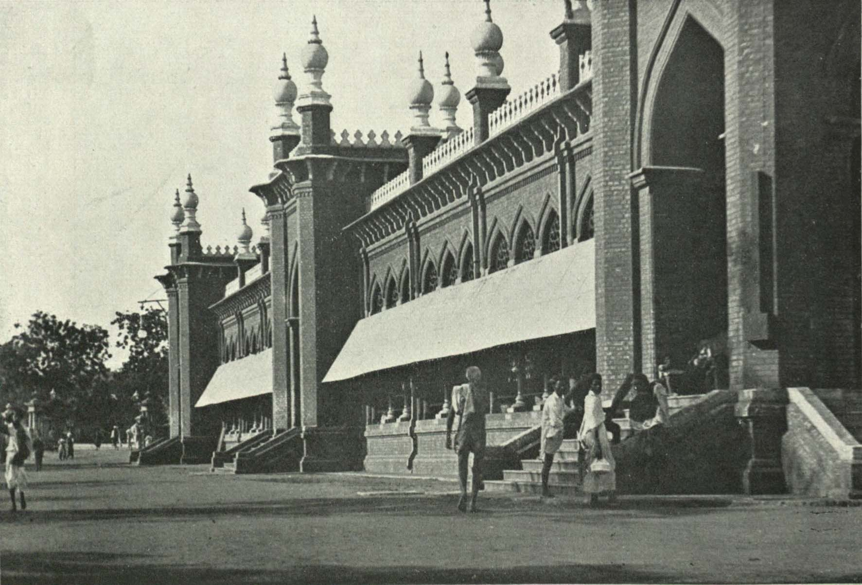 The market was opened in 1900, has a frontage of 350 feet and a depth of 242 feet. Here takes place practically all the early morning marketing of Madras.